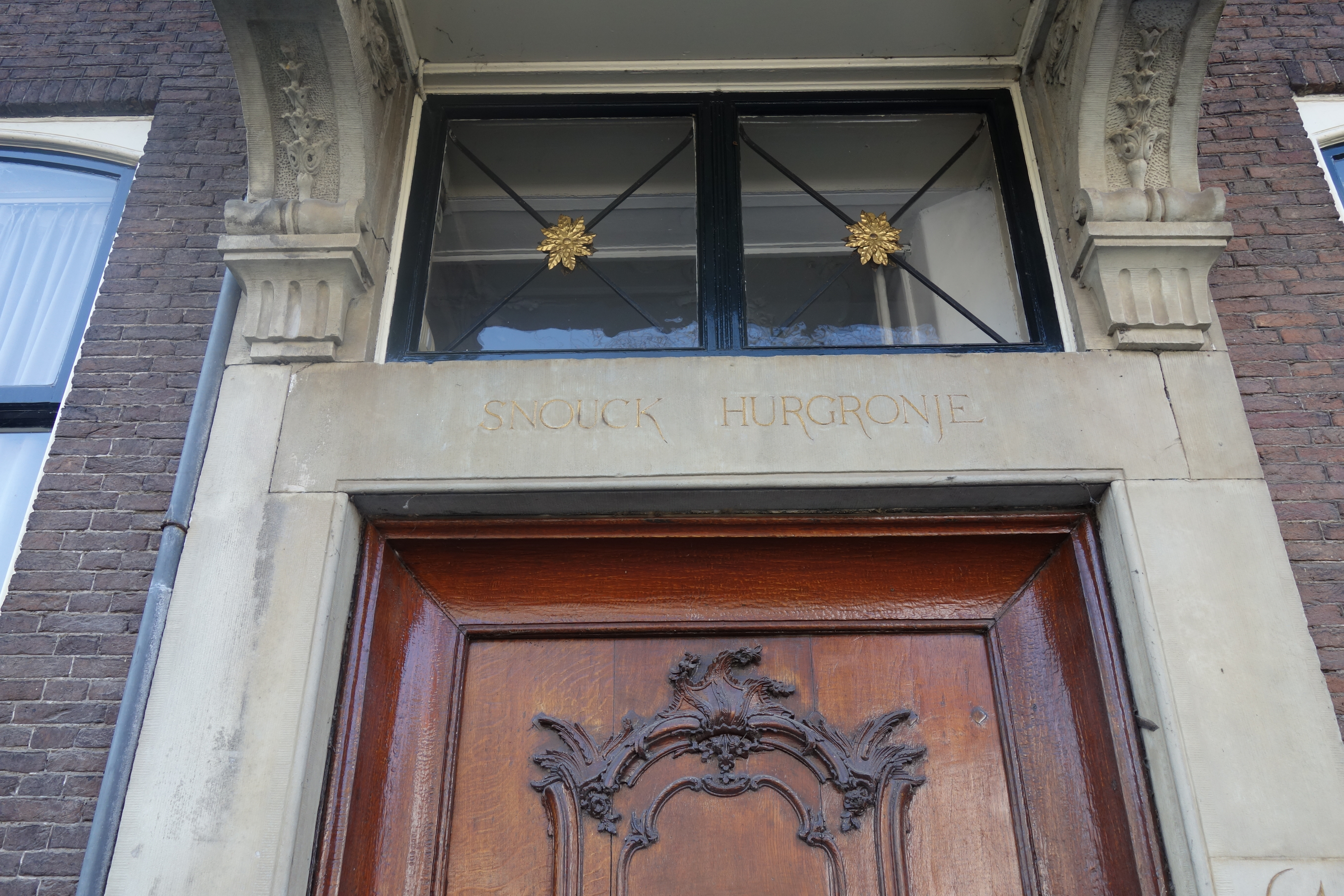 Entrance door of Rapenburg 61, Leiden (Snouck Hurgronje House)